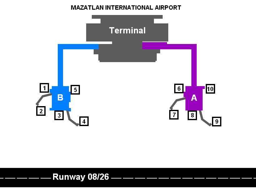 Map of the Mazatlan Int'l Airport.